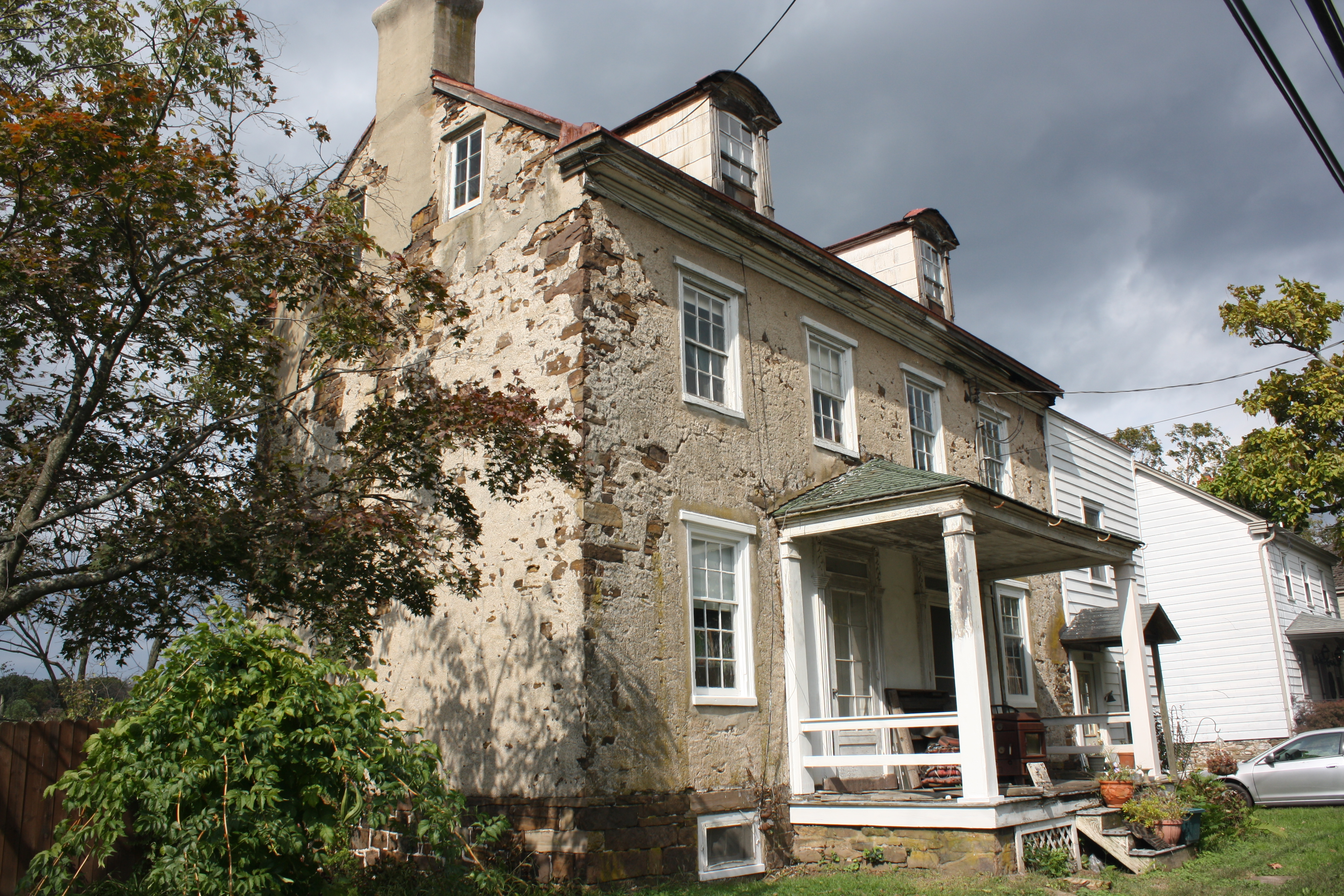 Penns Park Historic District locates on the Intersection of Second Street Pike and Penns Park Road (Wrightstown, Pennsylvania). 2nd Street Pk. Object location40° 15′ 59.04″ N, 74° 59′ 49.92″ W